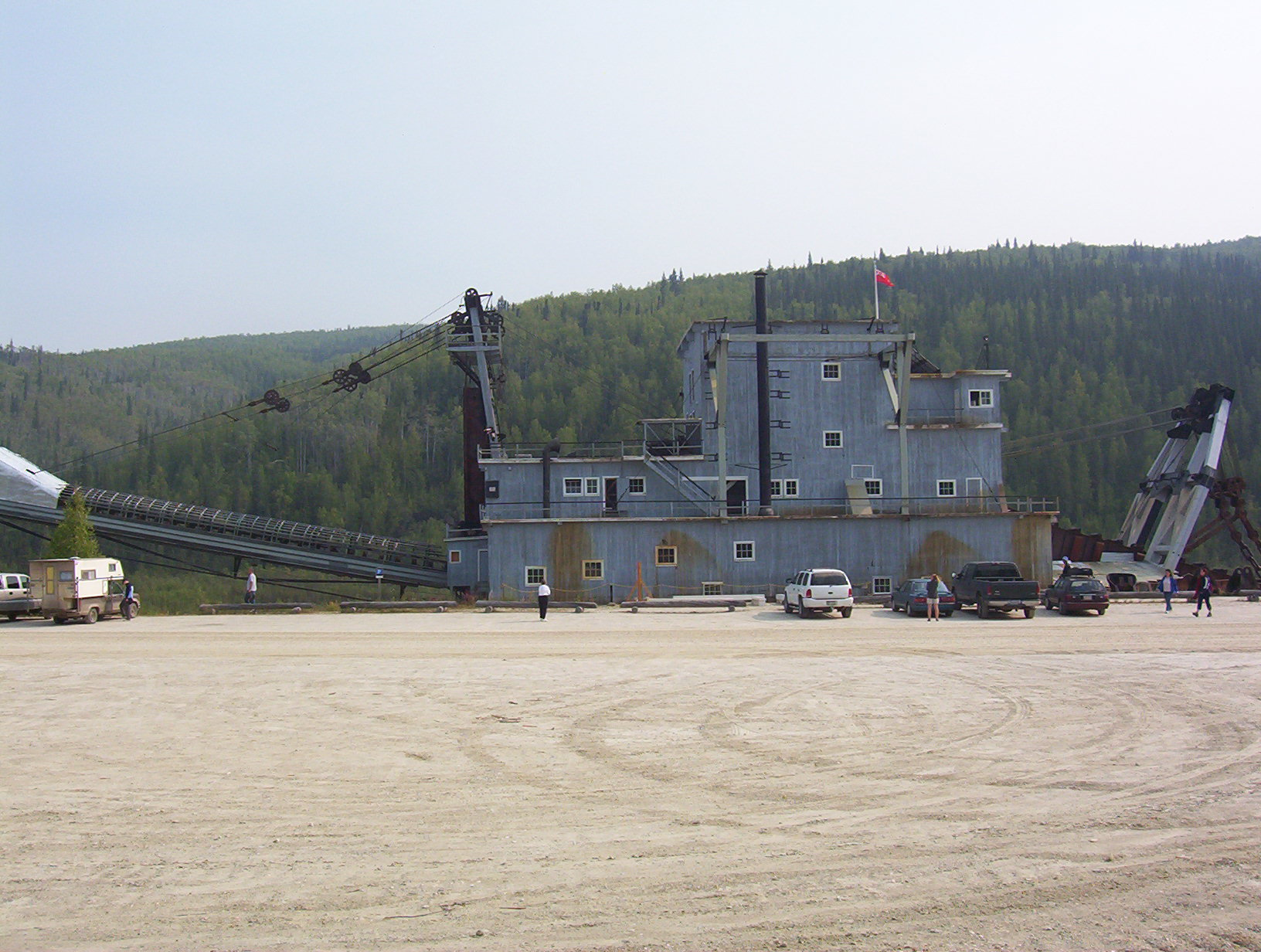 Dredge_No-4, Bonanza Creek, Dawson, Yukon, Canada Picture taken August 10th, 2005 by Janothird